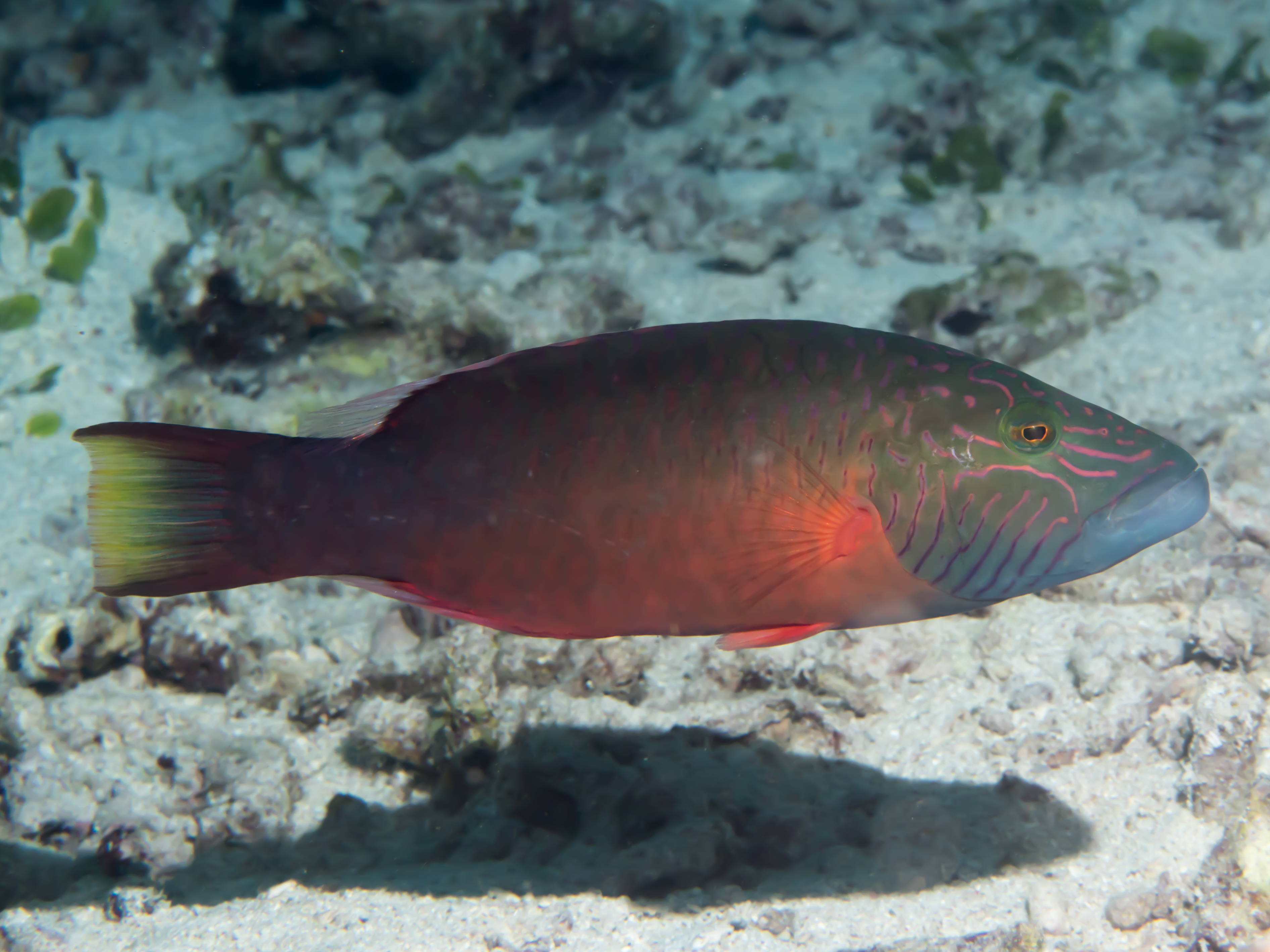 Romblon, Philippines - Cheek-lined wrasse (Oxycheilinus digramma)